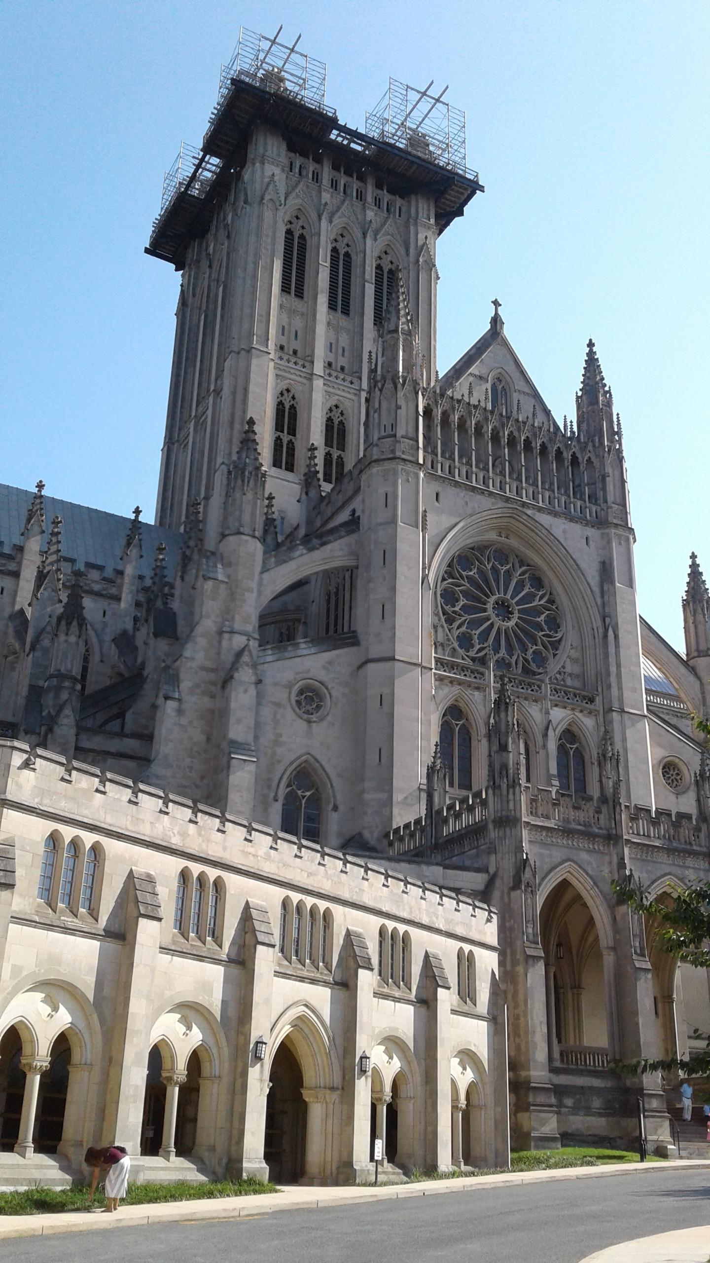 Washington National Cathedral under repair in 2017